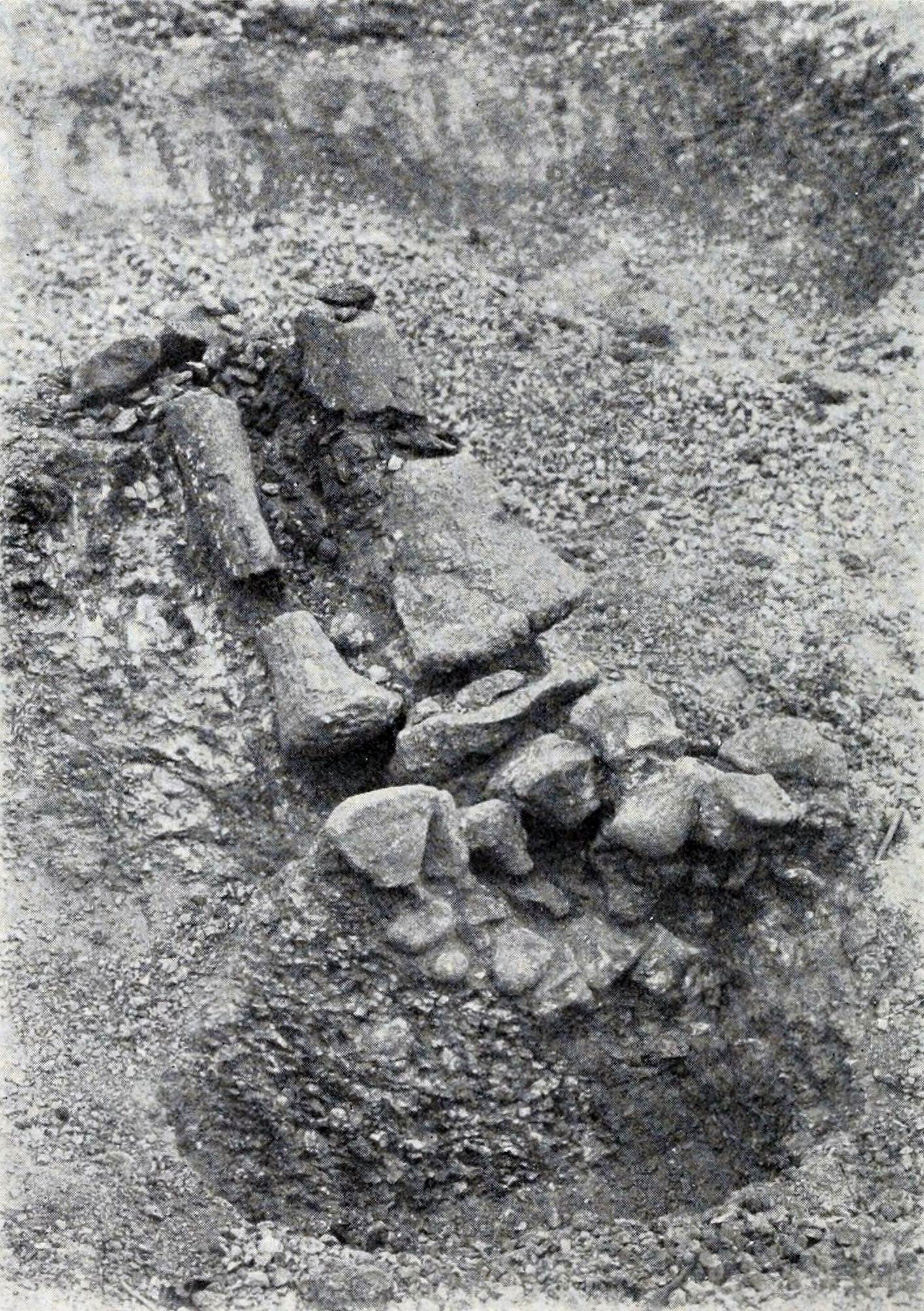 Title: Am Tendaguru : Leben und Wirken einer deutschen Forschungsexpedition zur Ausgrabung vorweltlicher Riesensaurier in Deutsch-Ostafrika Year: 1912 (1910s) Authors: Hennig, Edwin, b. 1882 Subjects: Dinosaurs; Paleontology Publisher: Stuttgart : E. Schweizerbart Text Appearing Before Image: 58 Pic Saurier. ftrömenbc ^lut ):iahe il^nen bann in IIncbenI)ettcn bes Siranbes ben Hücftoeg abgefcfinitten iinb pielen ein (5rab bereitet. ^efunbe Text Appearing After Image: 2lbb. ö-j. ^ugffclctt eines I^inofauricv: (9Iu§ ©ife.=S8er. G5ef. 9?aturf. ^reunbe, SBerün.) iiiienfdf). aufredet ftefjenb (jefunbcner ^^ii§(felcttc laffcn fogar bic Per= mutung auffommen, ba% bie Cicre im Sdjiamm eingefunden unb fterfen geblieben ujären. I)em im Perljältnis 3um Körper